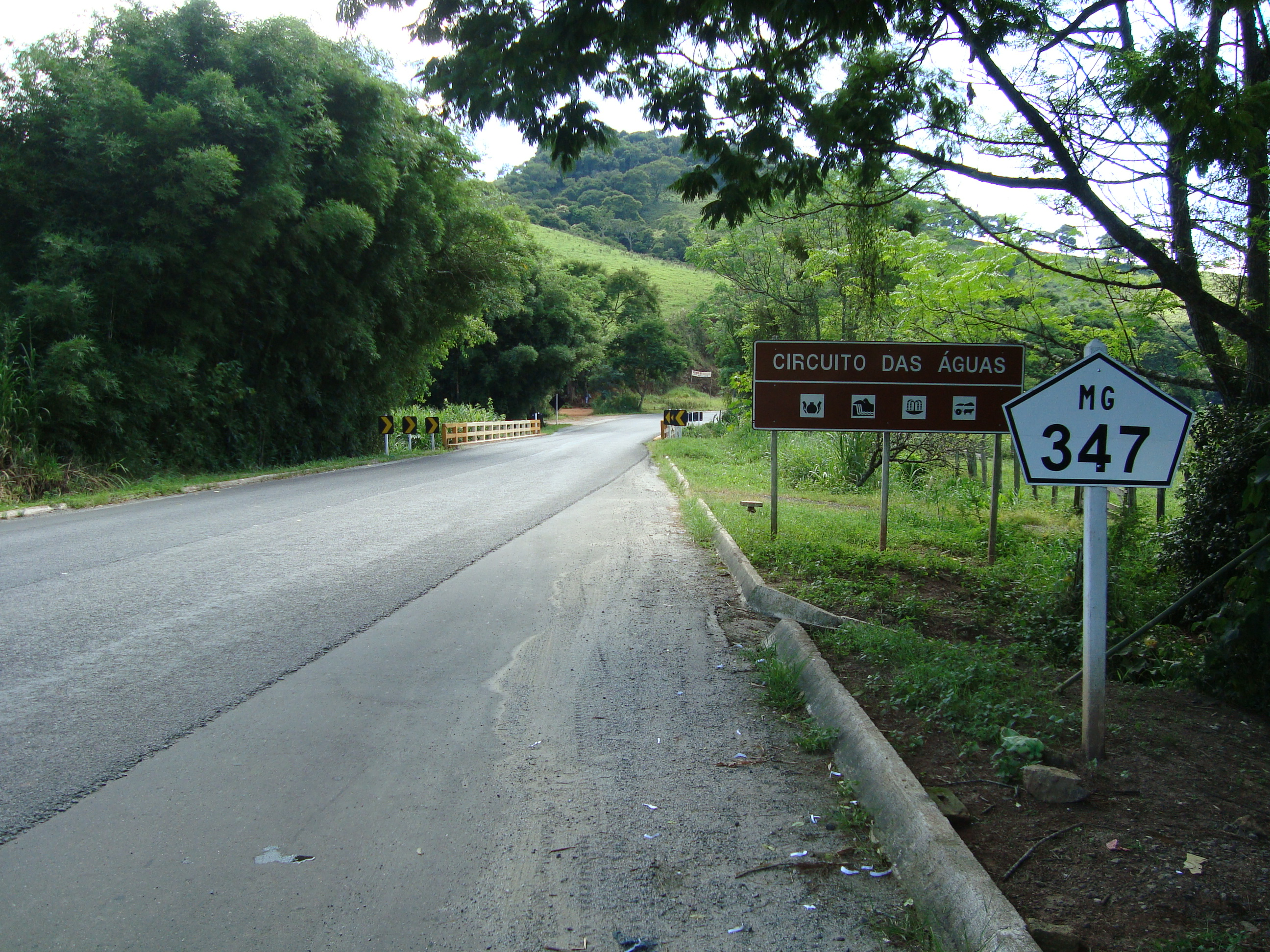 Road MG347 in Cristina, Minas Gerais, Brazil